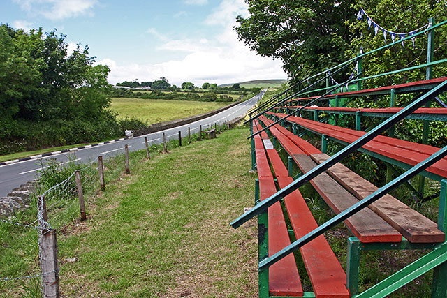 Hillberry From the famous corner on the TT circuit, showing the mini-grandstand.